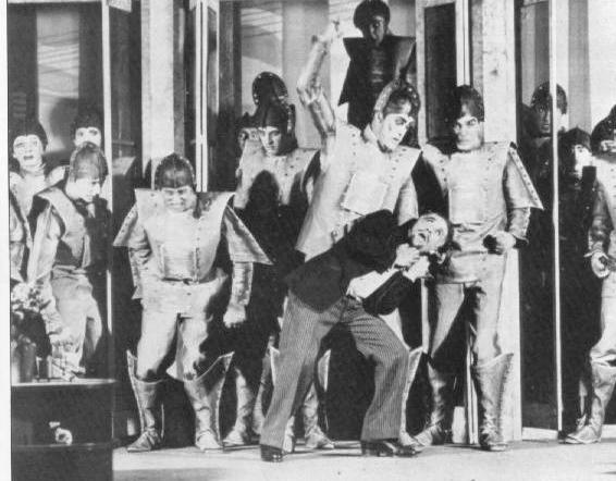 Photograph Theatre Guild touring company’s 1928–1929 production of R.U.R. by Karel Čapek.